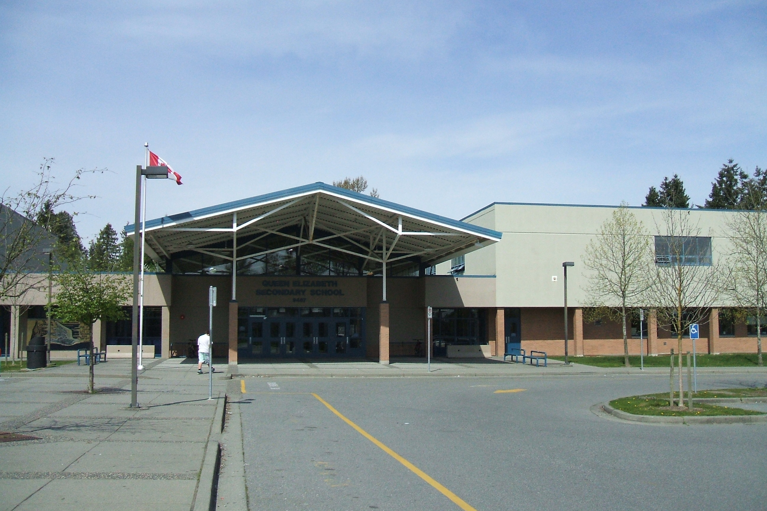 A north facing view of the front entrance to the Queen Elizabeth Secondary School at 9457 136 Street in Surrey, BC, Canada. This high school was first opened in late 1940 during the Second World War.